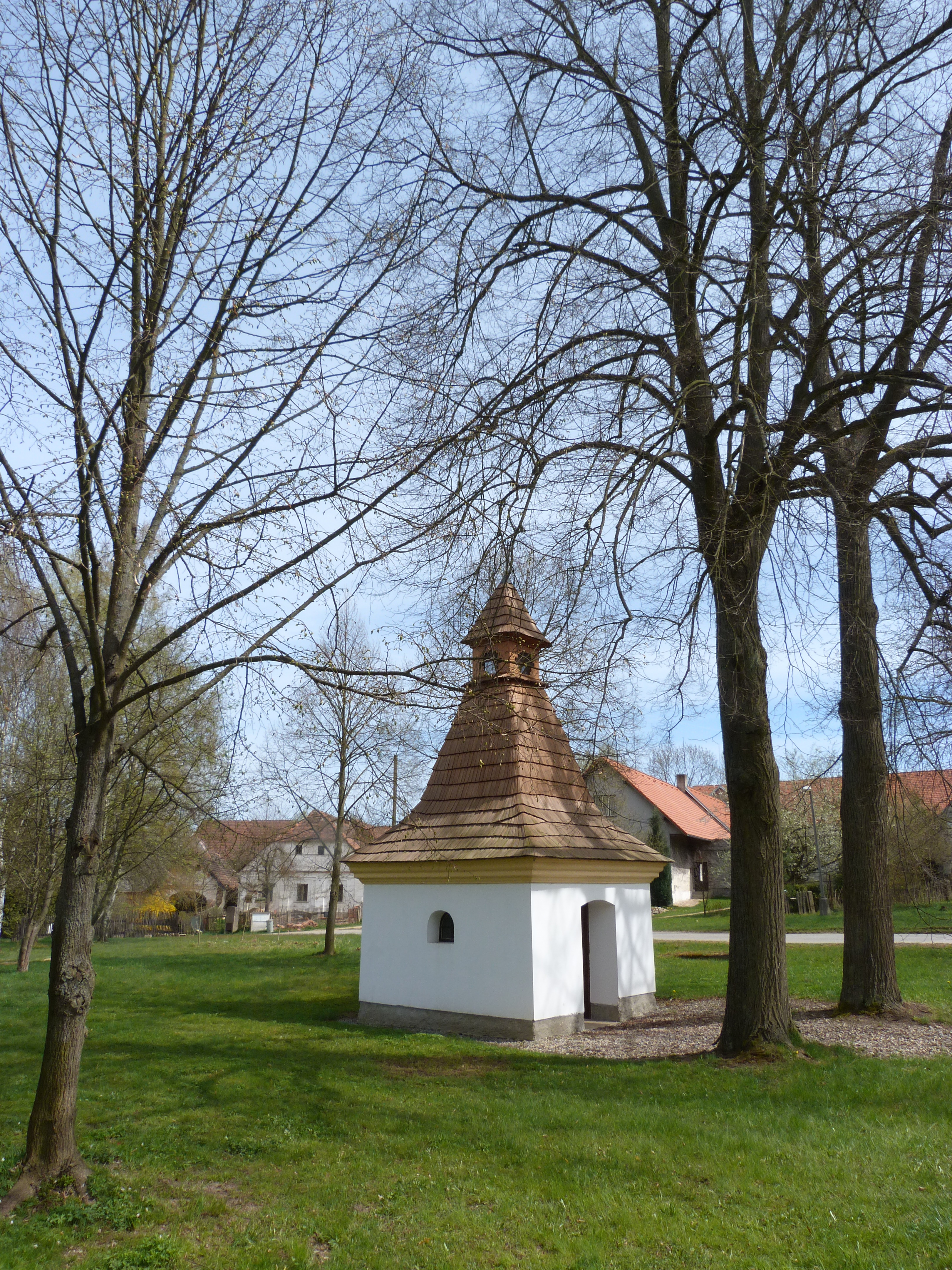 Leskovice, Pelhřimov District, Czech Republic